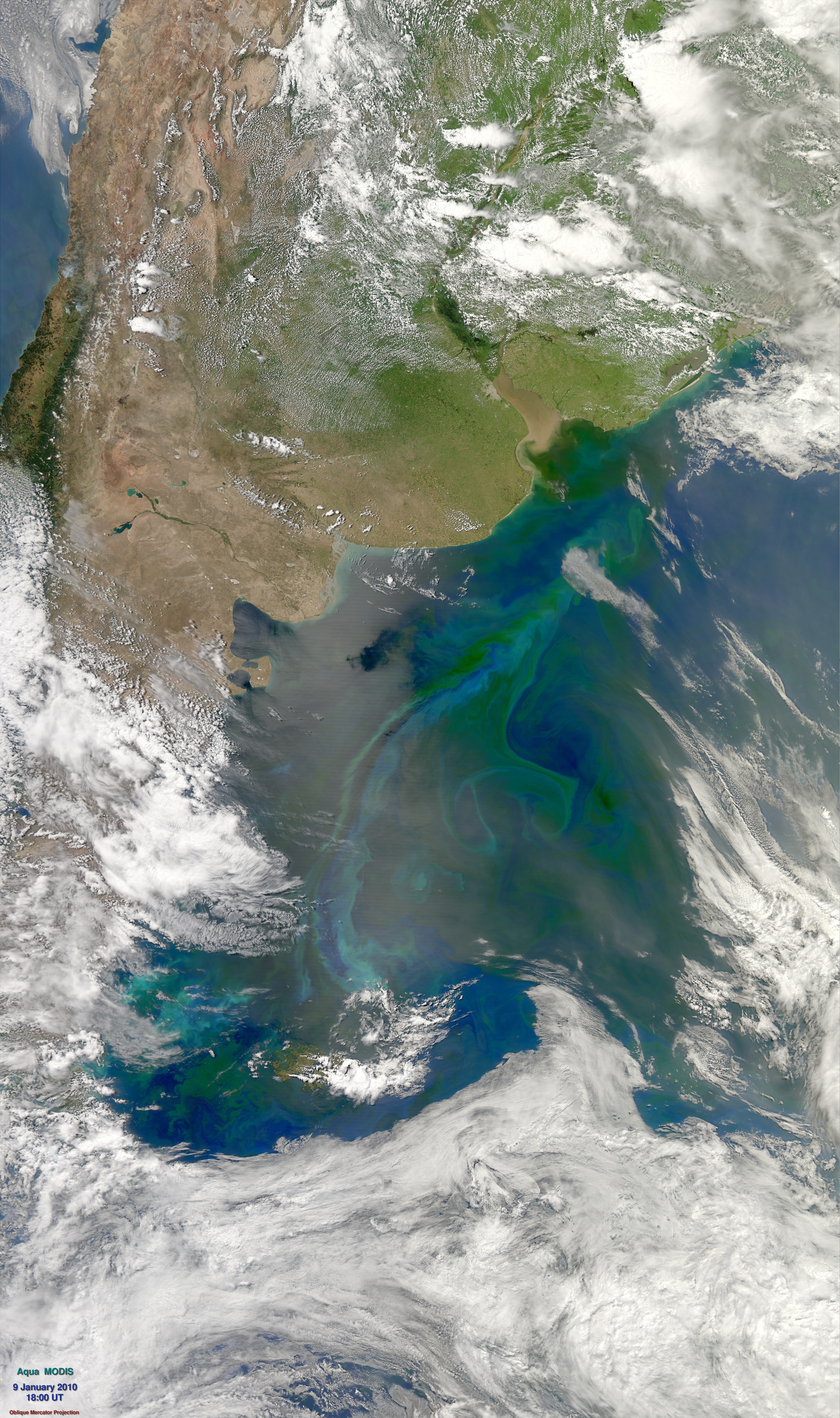 Many different species of phytoplankton colour the ocean’s surface. Very common in the South Atlantic bloom, coccolithophores are probably responsible for the milky blue colour in this image. Sunlight reflecting off the surface of the water is turning the water’s surface silver in the lower left corner. Many environmental factors come together to make the South Atlantic ideal for this large annual bloom of millions of micro-organisms. First, the chilly Malvinas Current, a north-flowing branch of the Antarctic Circumpolar Current, flows north along the edge of the South American continental shelf. The current brings cool, nutrient rich waters north. Water also rises to the surface along the edge of the continental shelf, bringing additional iron to sunlit waters. Finally, the Rio de la Plata deposits nitrogen and iron-laden sediment into the ocean just north of the area shown in the image. Though this image covers hundreds of kilometres, it shows only a portion of the entire bloom.